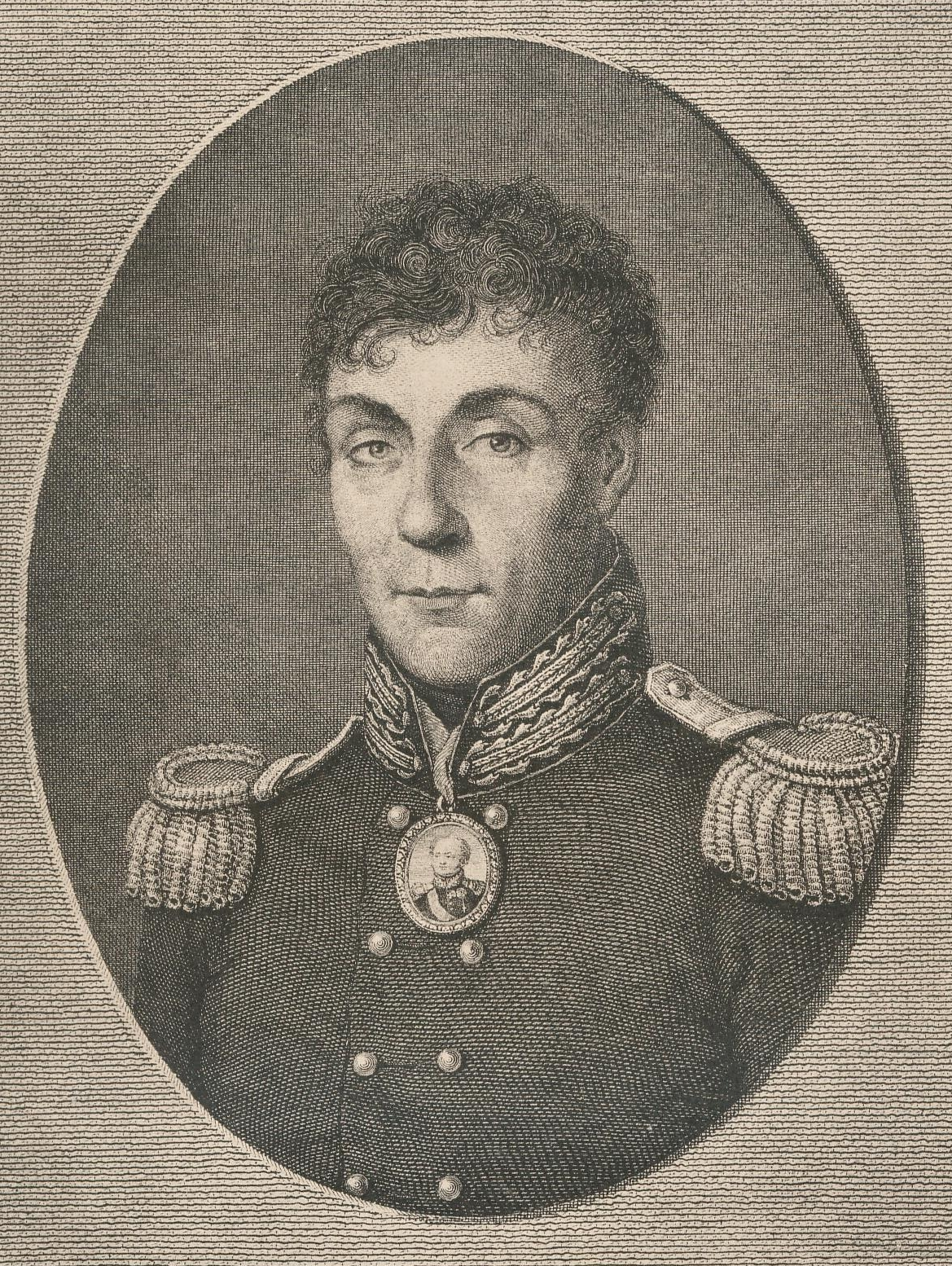 Count Alexey Andreyevich Arakcheyev